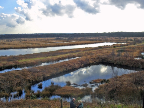 Risley Moss Nature Reserve Risley Moss Nature Reserve, view from the tower (at the edge of the area with public access) across the restored moss towards Rixton.